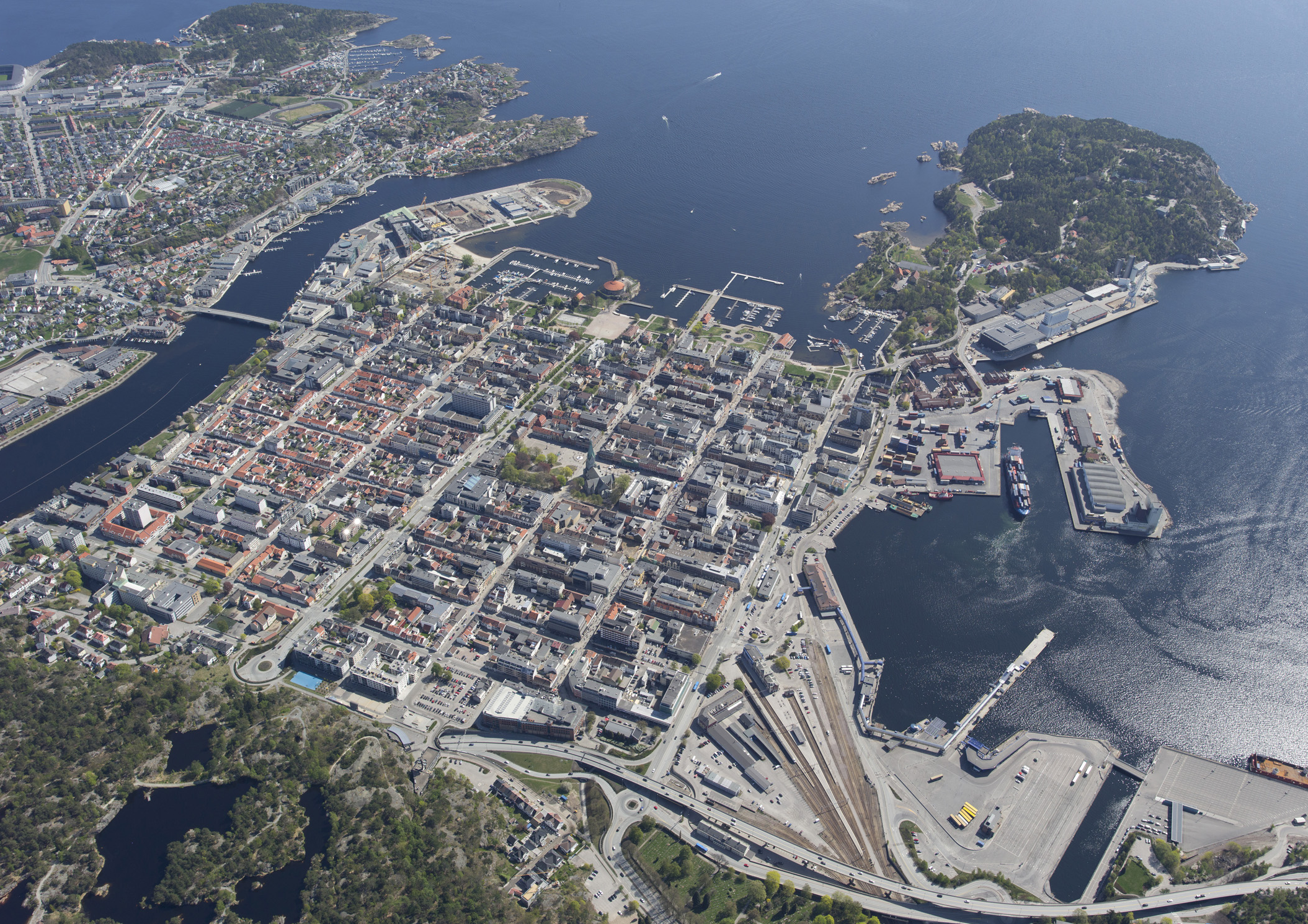 Kvadraturen in Kristiansand